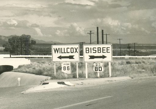 Close up view of US 80 and SR 86 signs in Benson, Arizona. This is also the only known photograph of a 1941 specification ADOT shield on the internet.